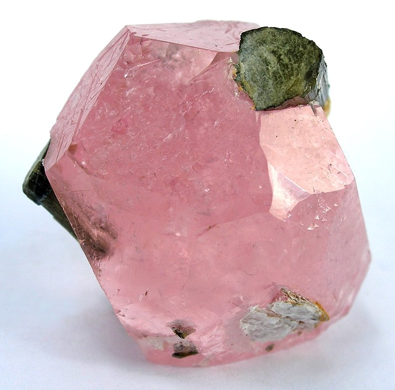 Beryl Locality: Darra-i-Pech (Pech; Peech; Darra-e-Pech) Pegmatite Field, Nangarhar (Ningarhar) Province, Afghanistan (Locality at ) Size: miniature, 3.6 x 3.3 x 3.0 cm Morganite with Tourmaline A stunning specimen that looks like nothing so much as dark tourmalines stuck in a wad of hot pink bubblegum. The color here is maximal for an Afghani morganite, and is much more intense, in person. The crystal is translucent, with some transparent areas, but universally bright and lustrous. The morganite is a floater, complete-all-around and fully terminated. Ex. Laura and Stevia Thompson Collection.